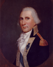 Frederick Frelinghuysen (1753-1804) Source New Jersey Historical Society